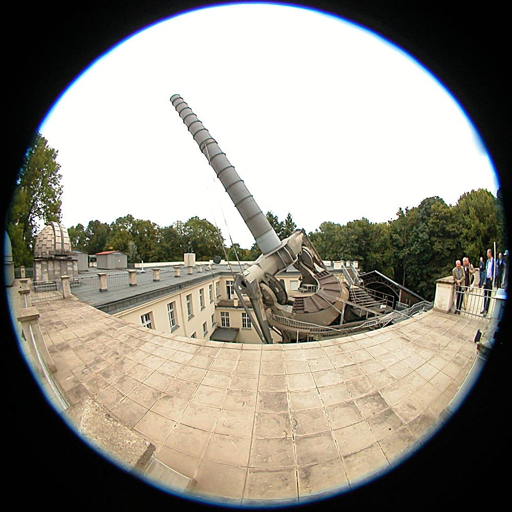 Big Treptower telescope